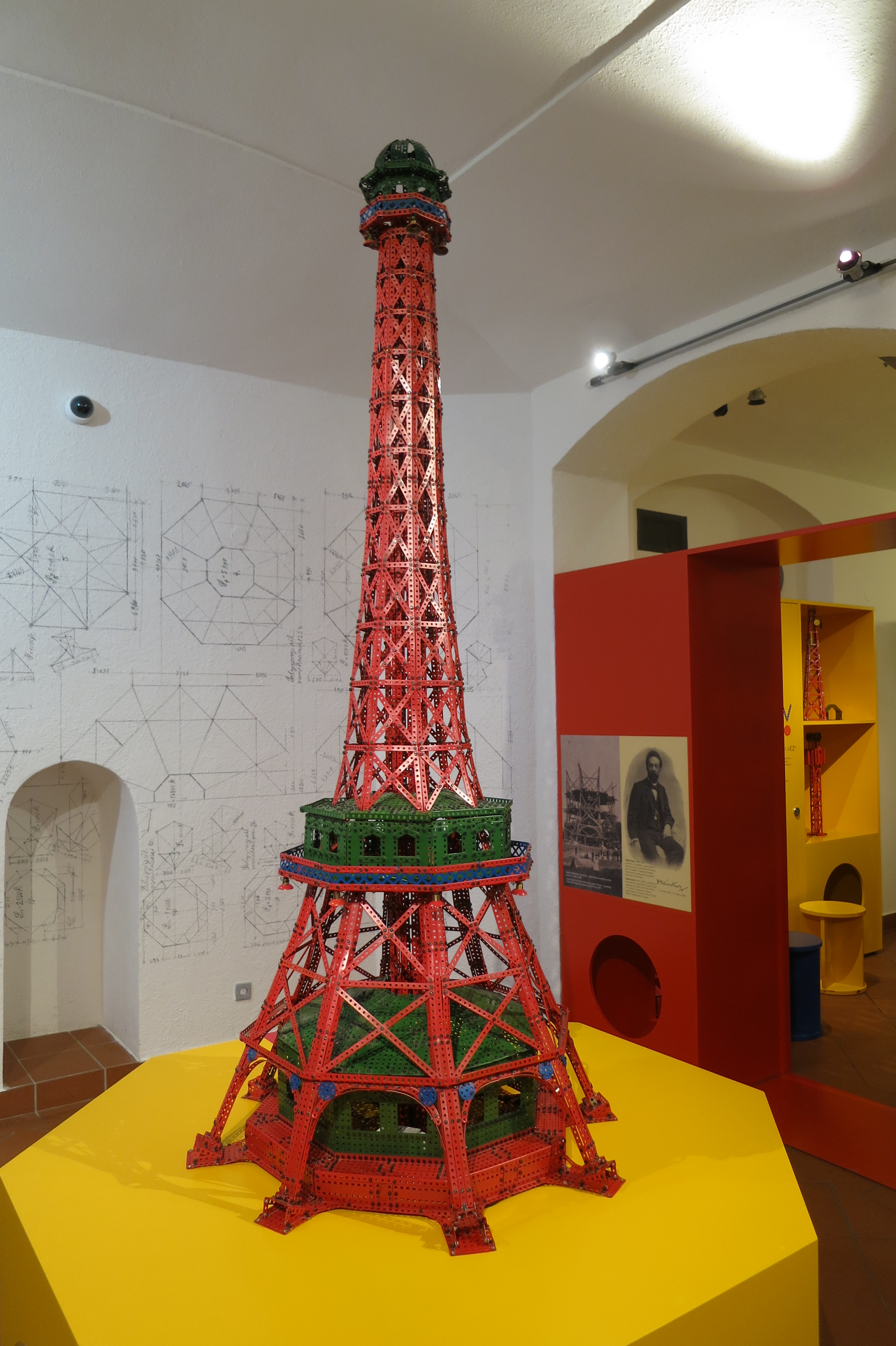 Petřín tower from Merkur construction set.